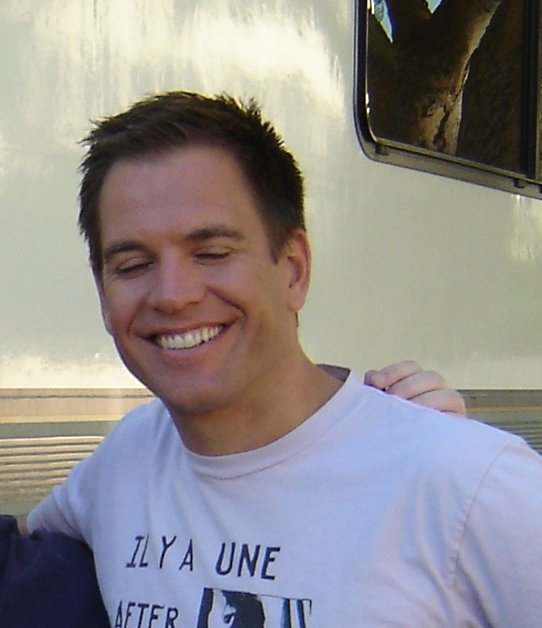 I've cropped my friend and myself out of these photos because I look like a dork and I figured she would not want to be on Flickr publicly (She doesn't look dorky at all in these photos). That's my hand and part of my blue shirt you can see.